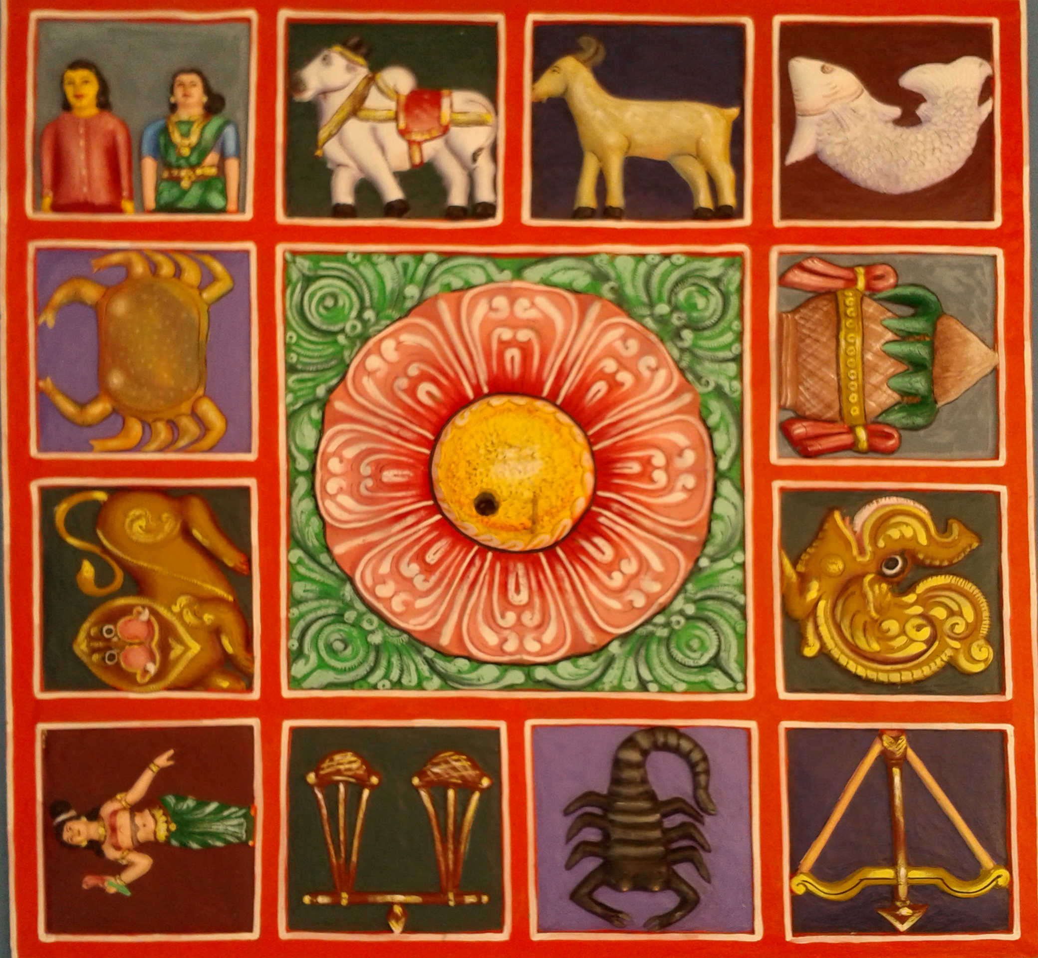 Zodiac symbols painted Relief on the terrace of a Gopuram at Kanipakam Lord Shiva temple